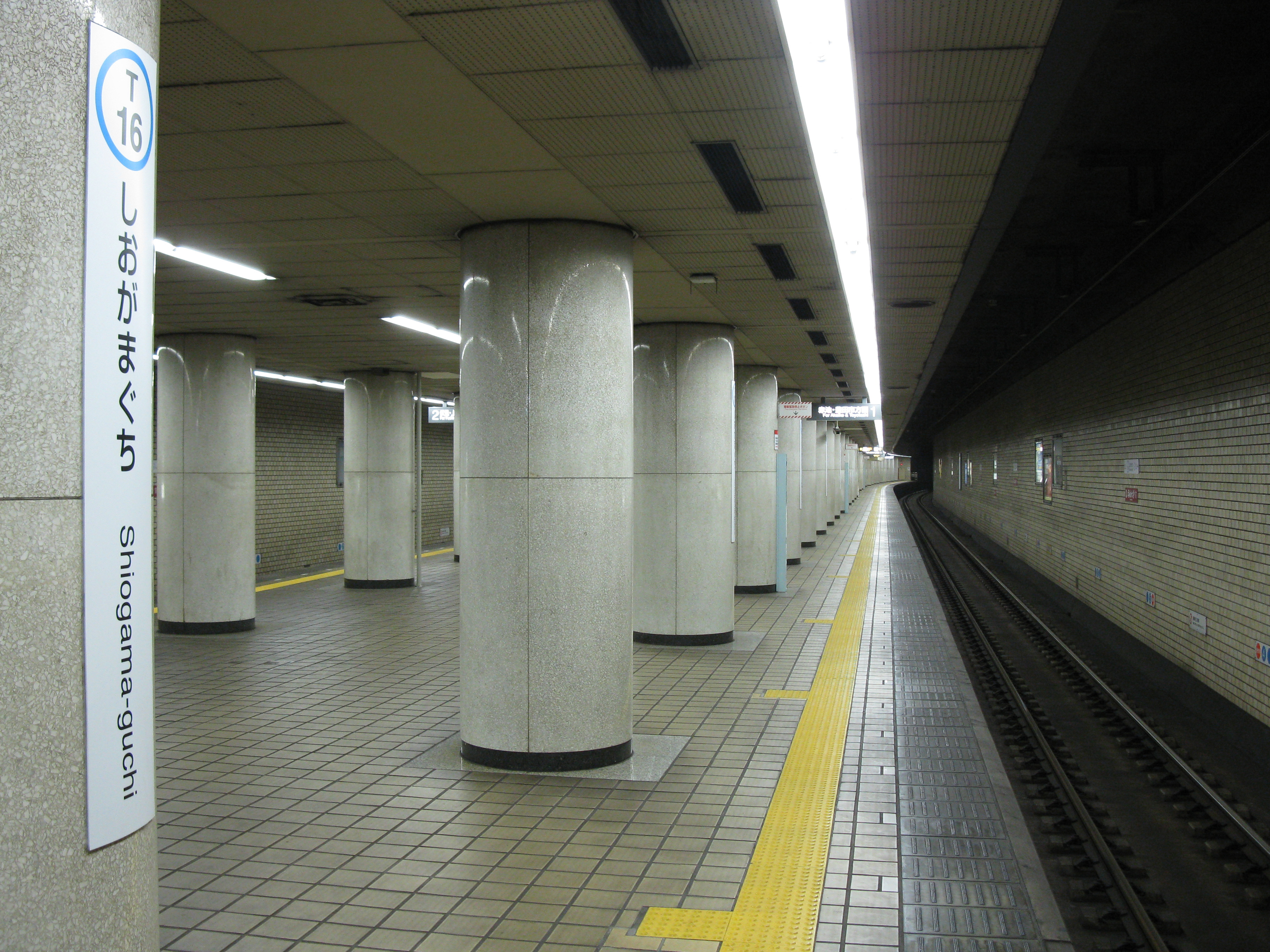 Shiogama-guchi Station platform (Nagoya Municipal Subway Tsurumai Line)